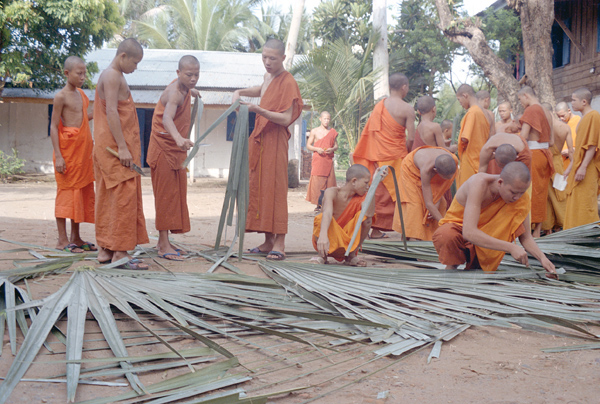 Novice monks practicing the art of making palm-leaf folios. 1. Selecting suitable leaves from palm tree fronds. Vat Manolom, Luang Prabang.